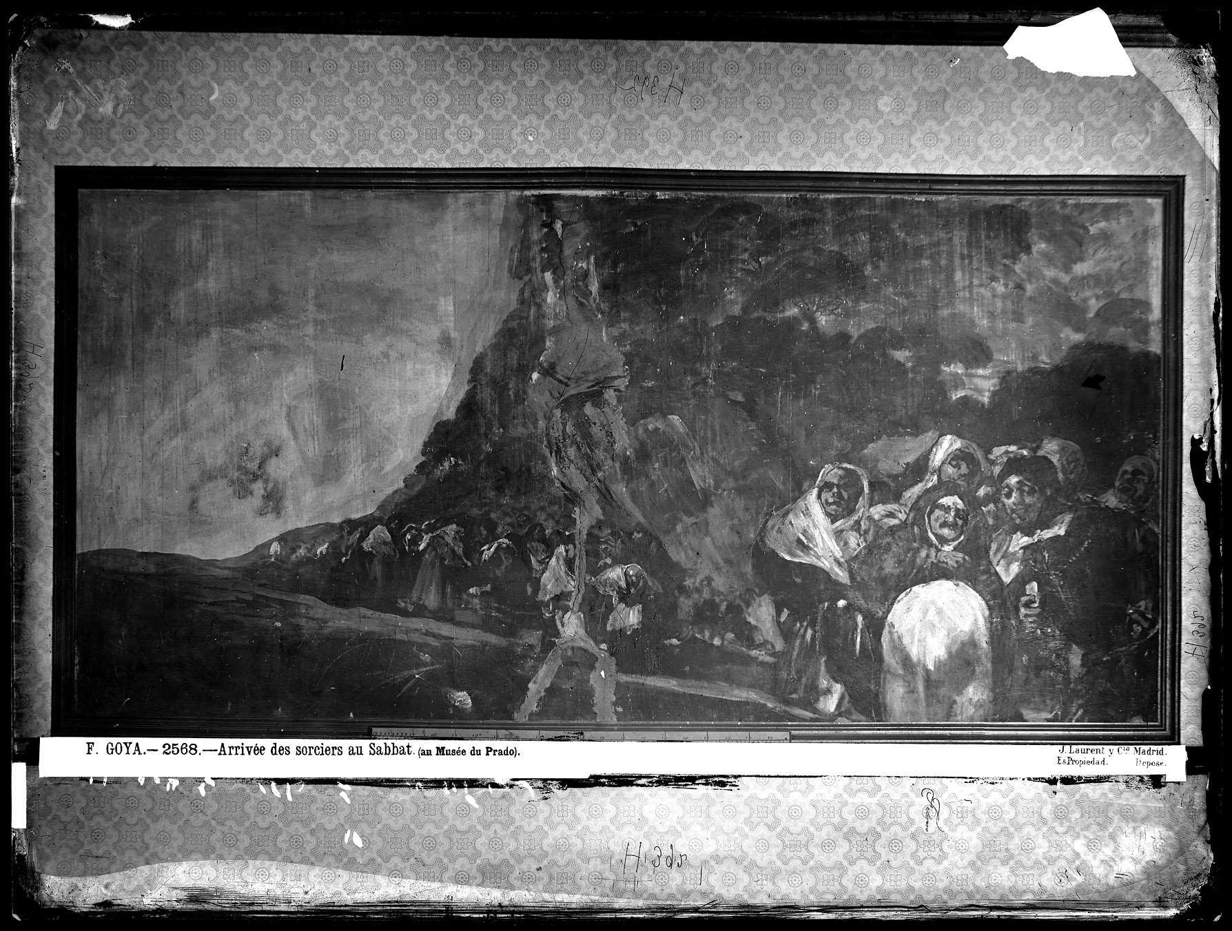 Photo of mural painting "Procession of the Holy Office" from the series of Black Paintings of Goya. The original glass negative was taken by J. Laurent, in 1874, inside of the house of the Quinta de Goya. Years later, around 1890, the successors of Laurent added a label indicating "Prado Museum". But photographic reproduction is 1874.